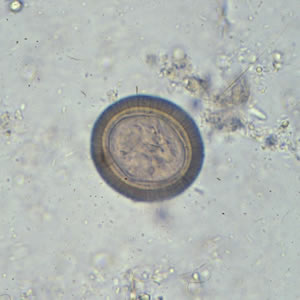 Taenia spp. eggs in unstained wet mounts